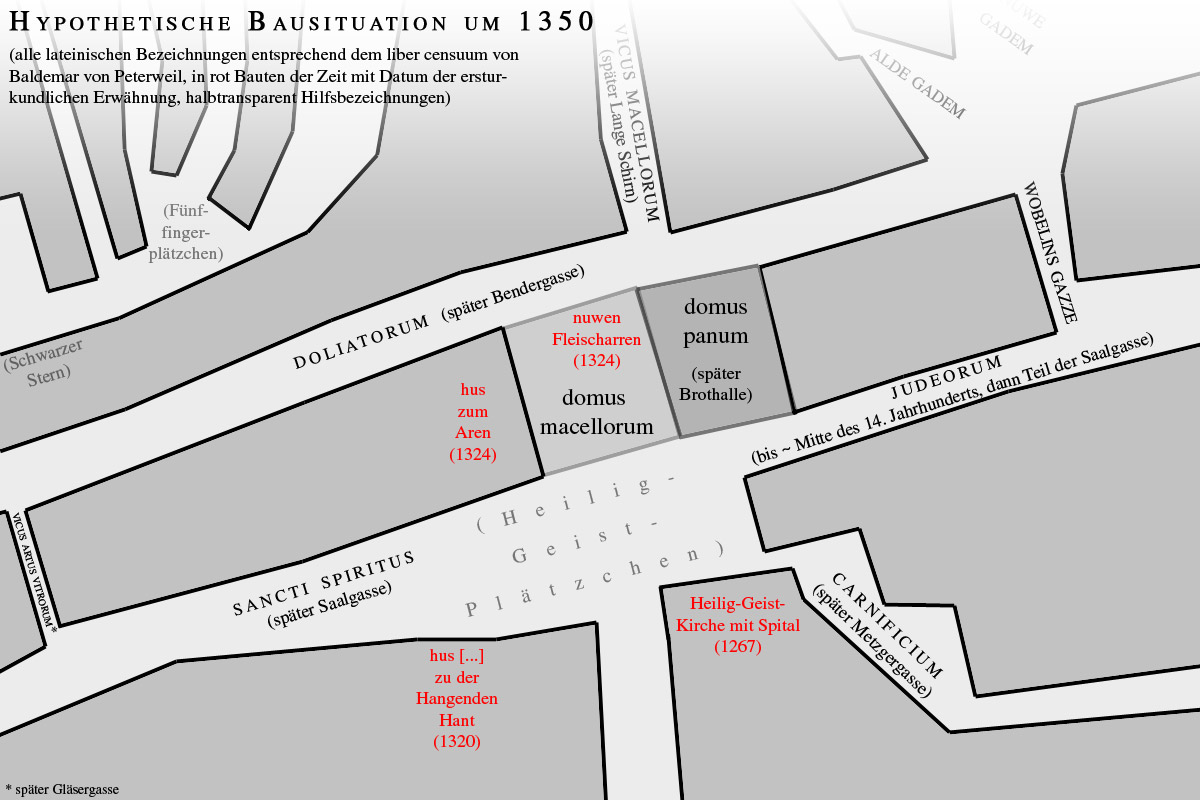 Frankfurt on the Main: surroundings of the Scharnhaeuser (scharn houses) at the Saalgasse (hall lane) on the basis of documented sources, around 1350